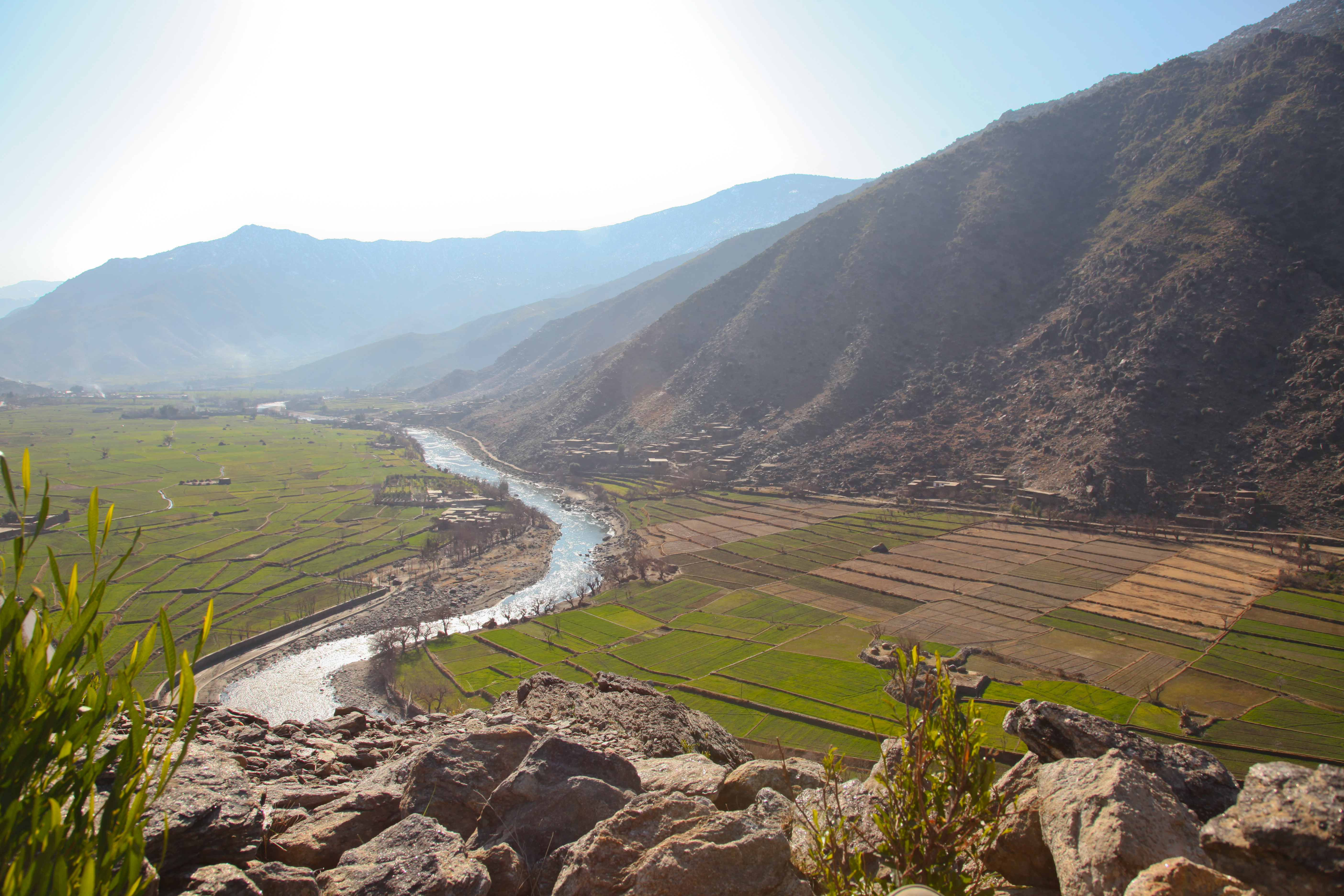 Overview of Watapur district, Kunar province, Afghanistan, Jan. 11, 2012. (Photo ID: 512066)